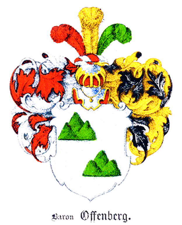 Coat of Arms of Baron Offenberg family